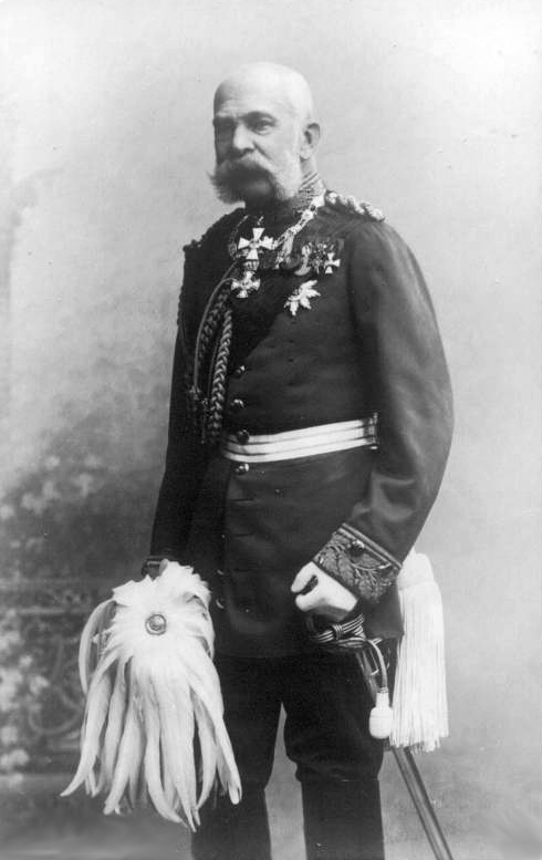 Emperor Franz Josef I of Austria-Hungary, ca. 1900. He wears the uniform of a Prussian field marshal